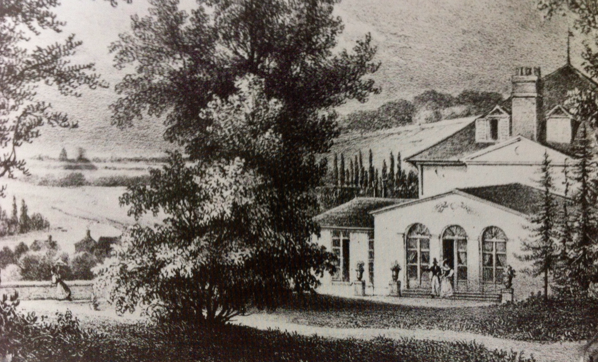 Hôtel des Montalais in Meudon , France Not to be confused with Château des Montalais